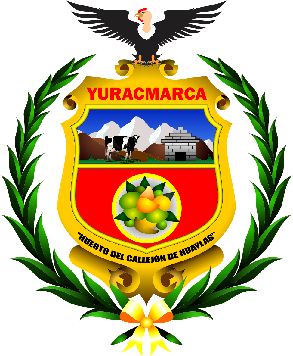 Yuracmarca District - Province of Huaylas - Ancash Region